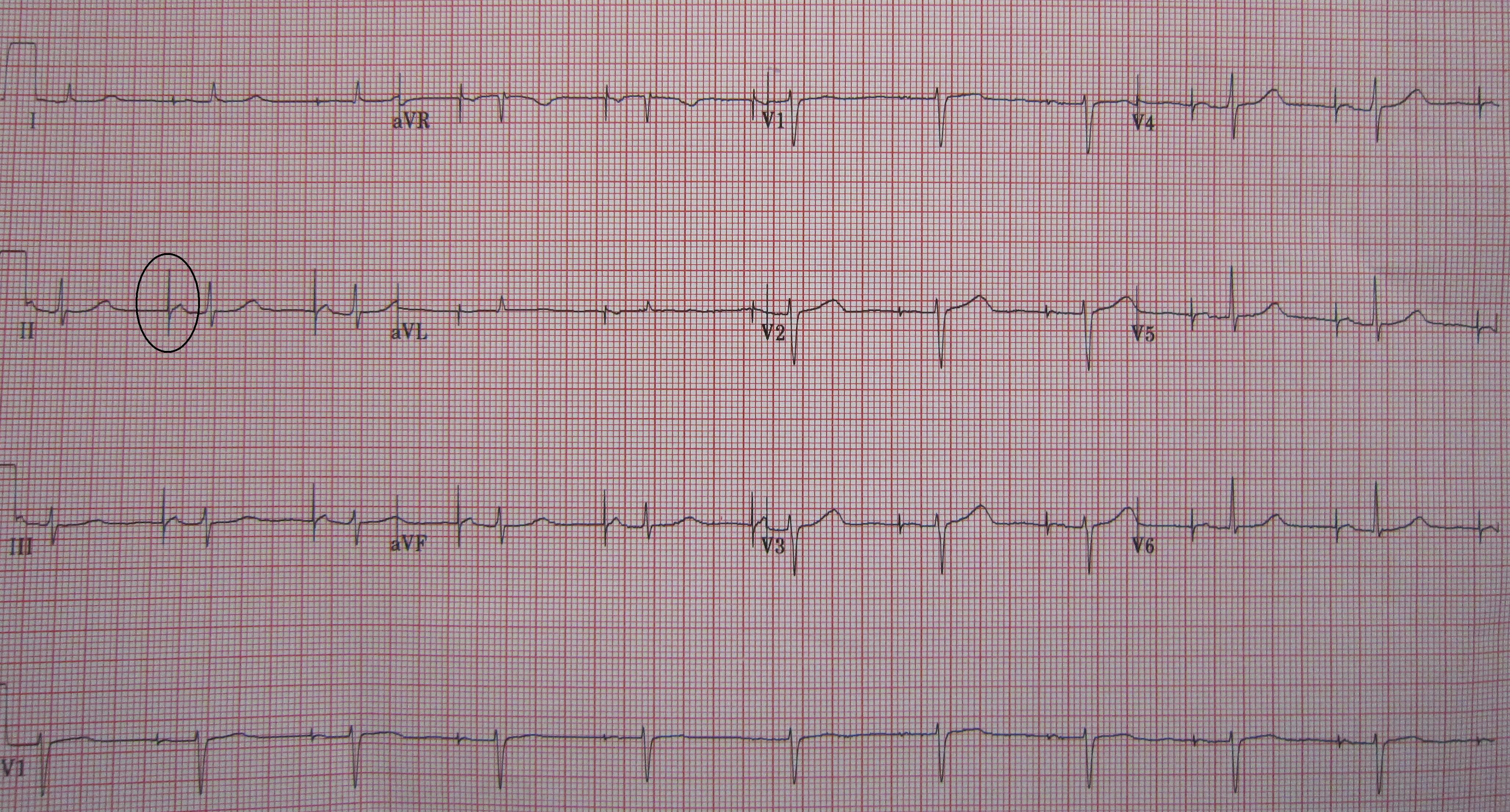 An ECG in a person with an atrial pacemaker. Note the sharp electrical spike in the position where one would expect the P wave.